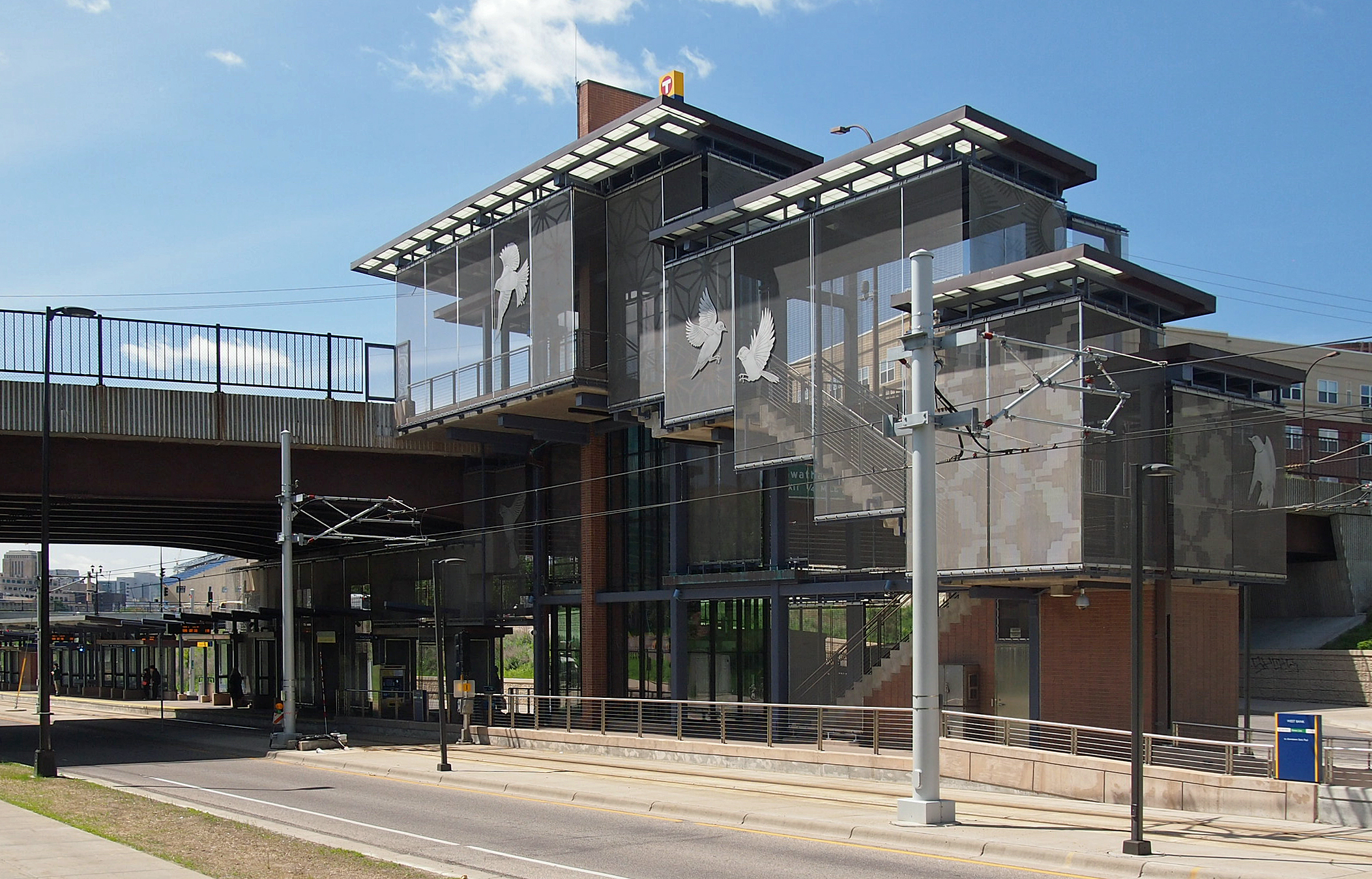 West Bank station, Minneapolis, Minnesota, USA. Viewed from the southeast.